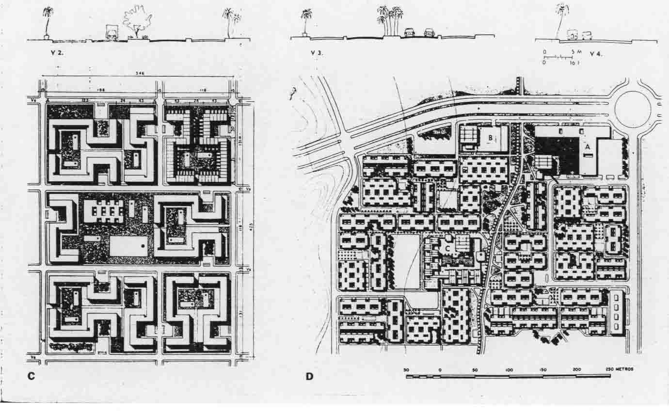 Havana Plan Piloto Urban layout of residential areas for the new neighborhoods of Havana, Sert Master Plan.